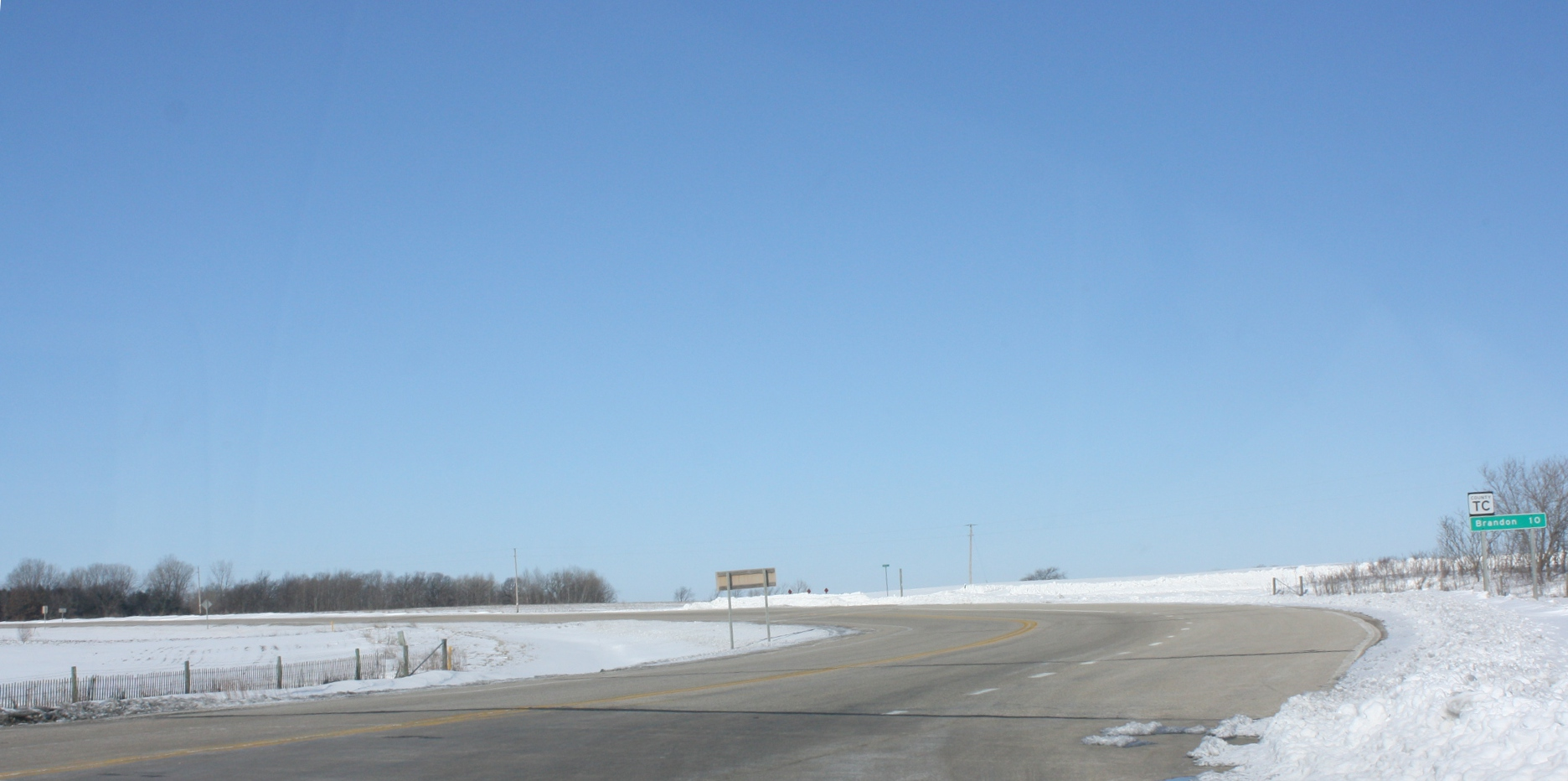 Looking west at the former eastern terminus of the former Wisconsin Highway 103.